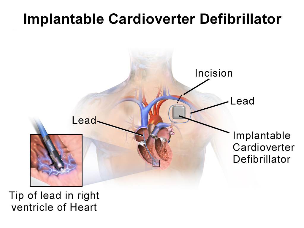 Implantable Cardioverter Defibrillator. See a full animation of this medical topic.